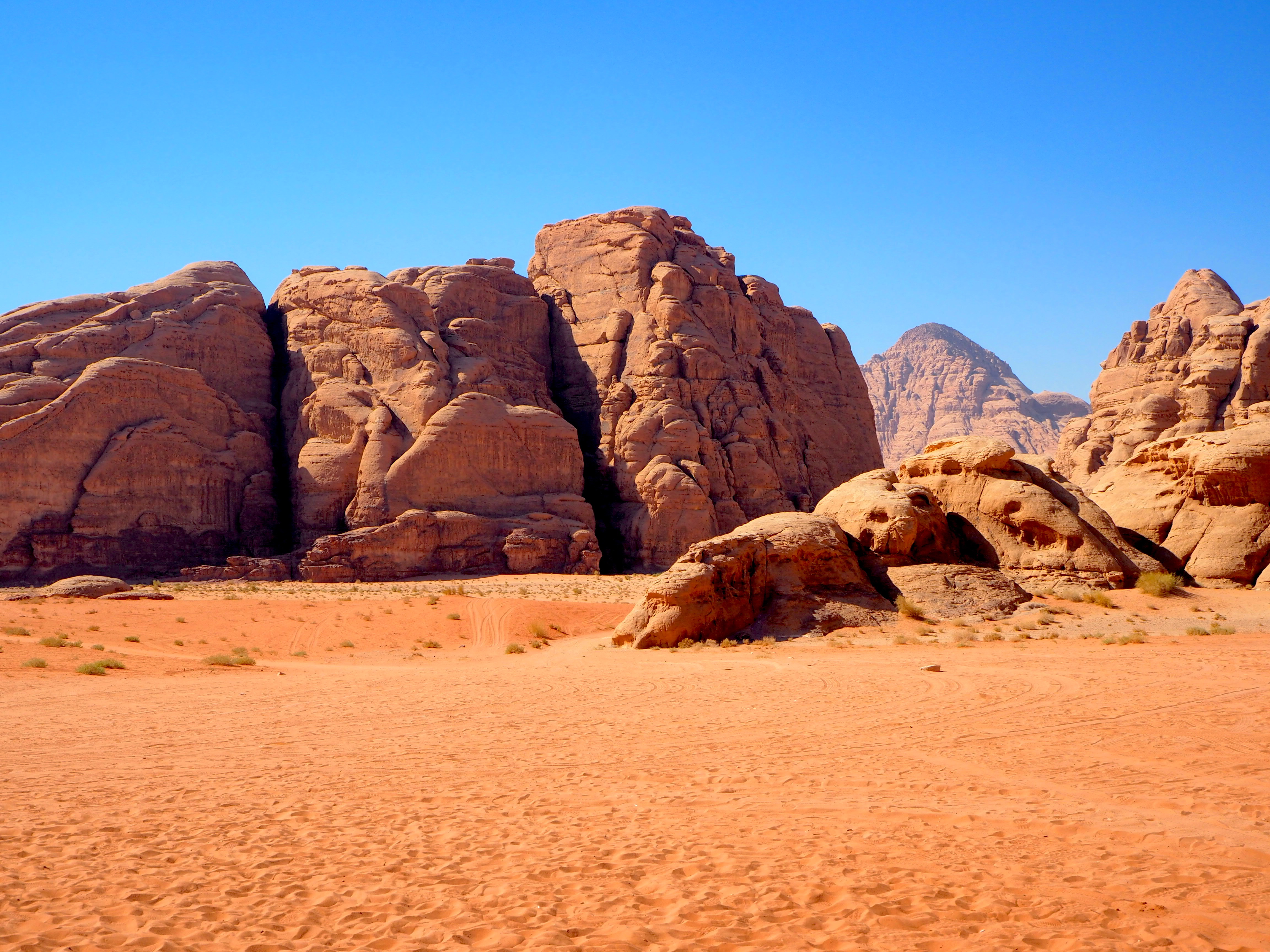 Desert in Wadi Rum, Jordan